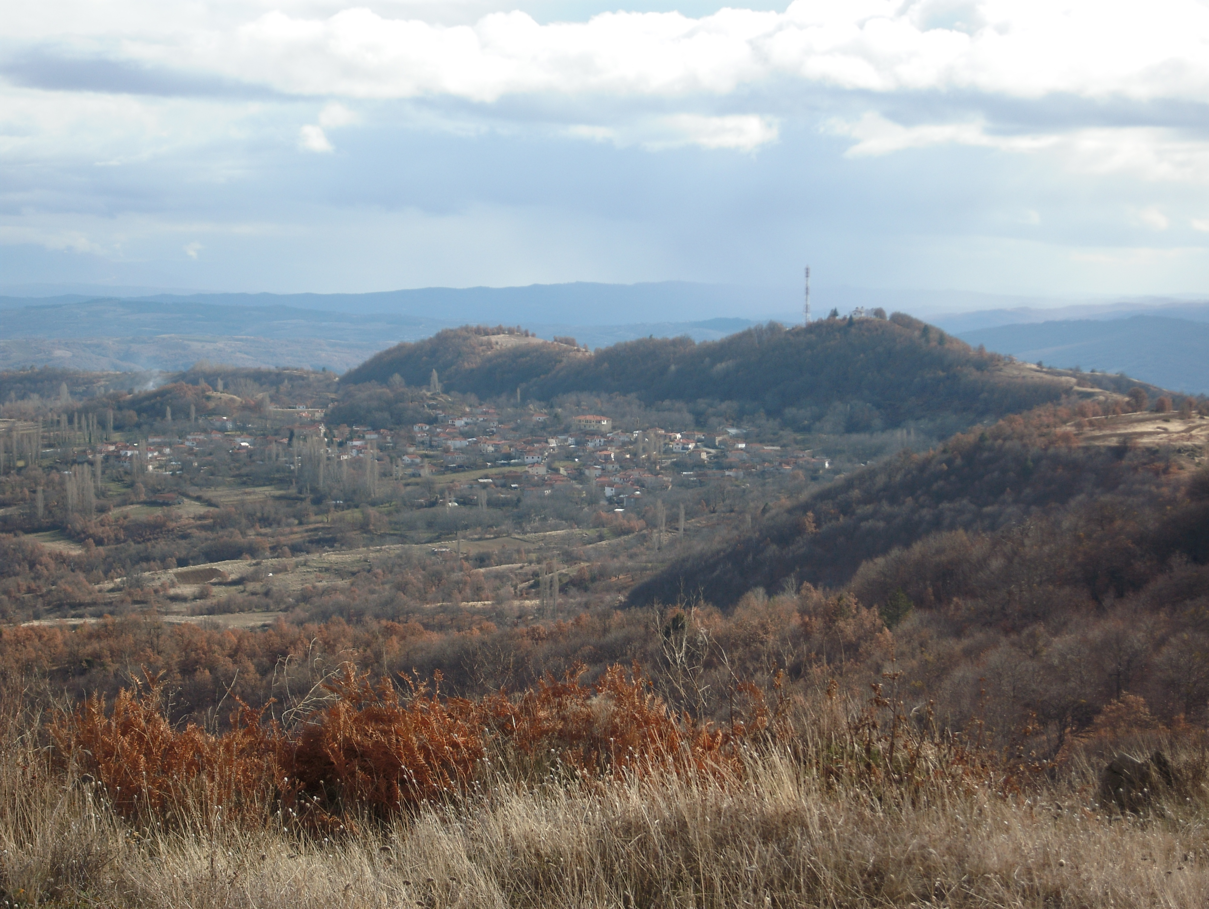 Videlushta / Damaskinia